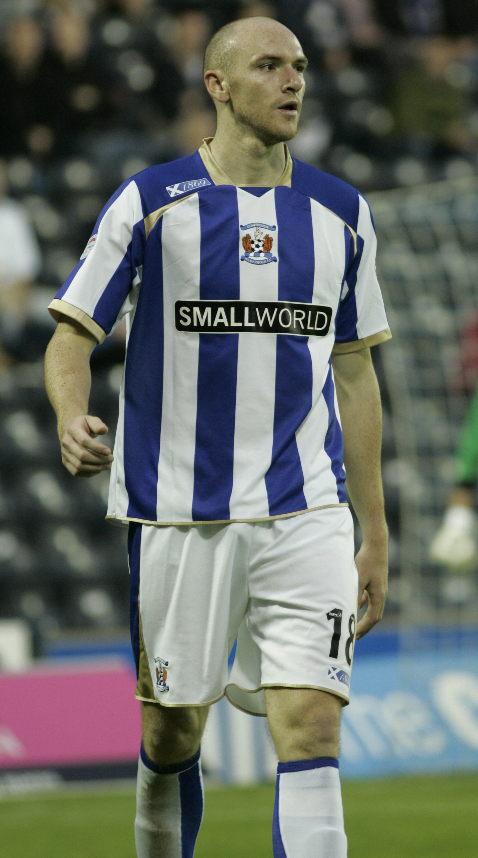 Connor Sammon playing for Kilmarnock in August 2009 Kilmarnock vs Morton - CIS Cup 2nd Round.